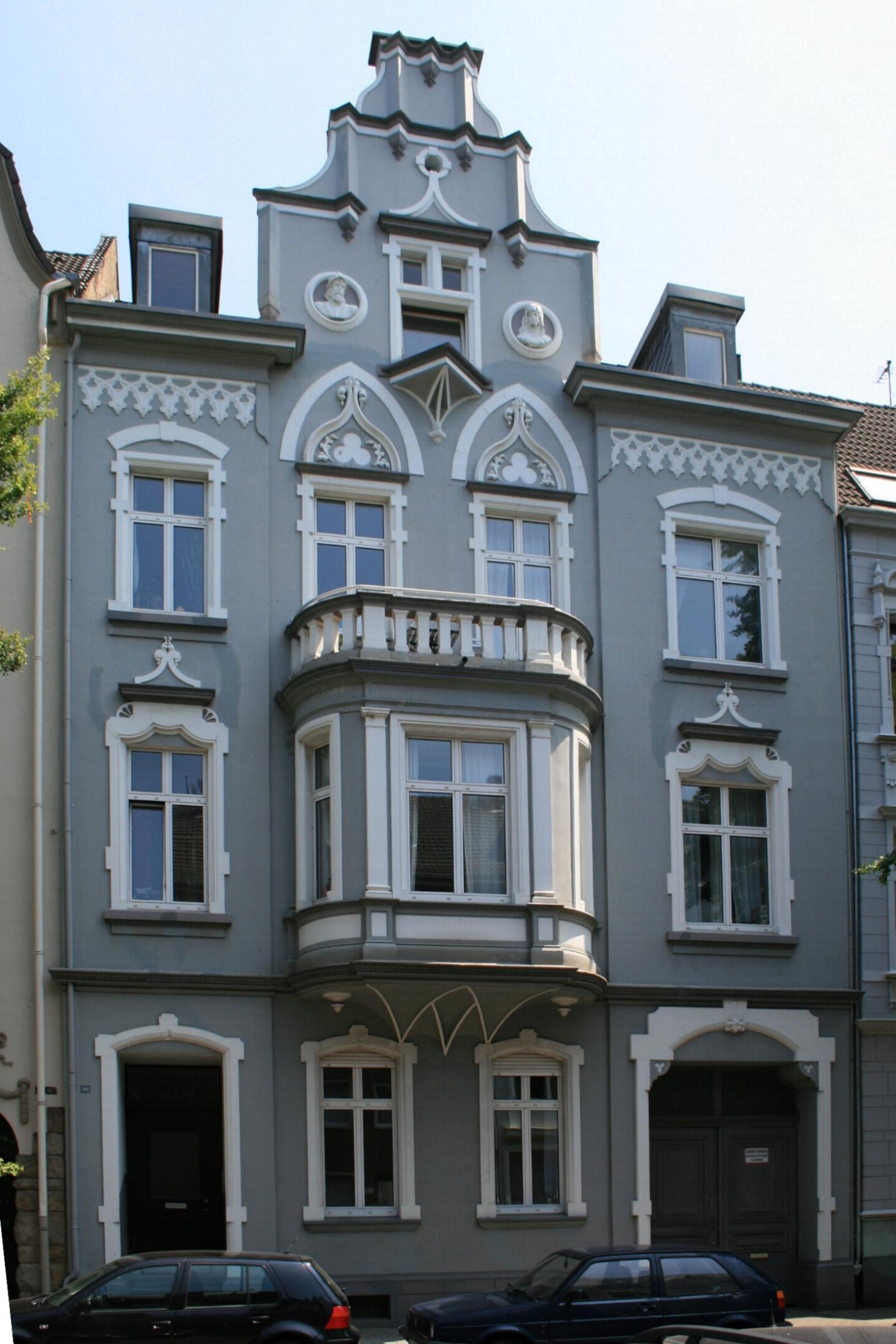 Cultural heritage monument No. B 066 in Mönchengladbach